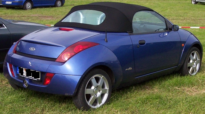 Ford StreetKa